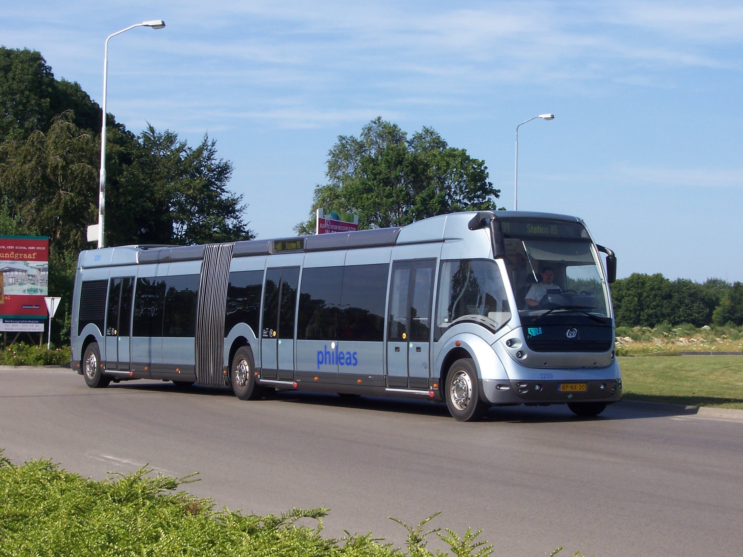 APTS Phileas 18 bus (#1210; BP-NX-20) in Eindhoven, Netherlands. Built 2004, Hermes Groep N.V. from Weert operator.